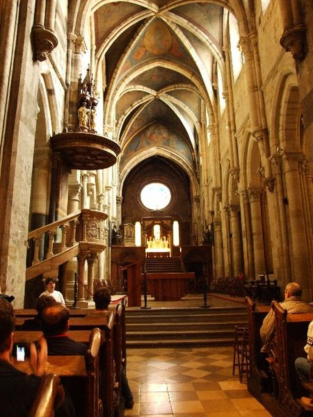 Pannonhalma Archabbey